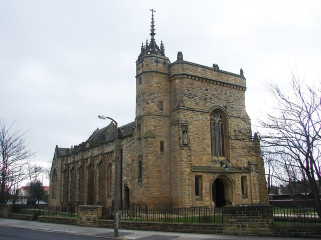 The Catholic Church of Our Lady of the Assumption and St Meddan The crowned mini-spire is quite unusual.